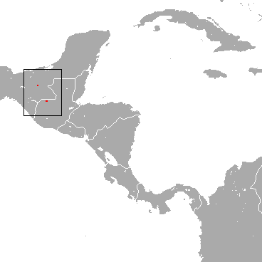 Sclater's Shrew (Sorex sclateri) range